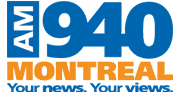 Category:Radio station logos History of Image:Logo 940 montreal.gif 2008-06-16T05:28:29Z BJBot (Talk